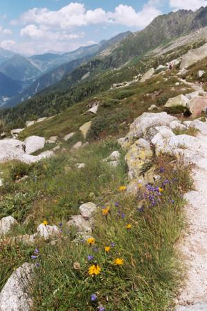 Flora typical of the Alpine Region of the Alps.